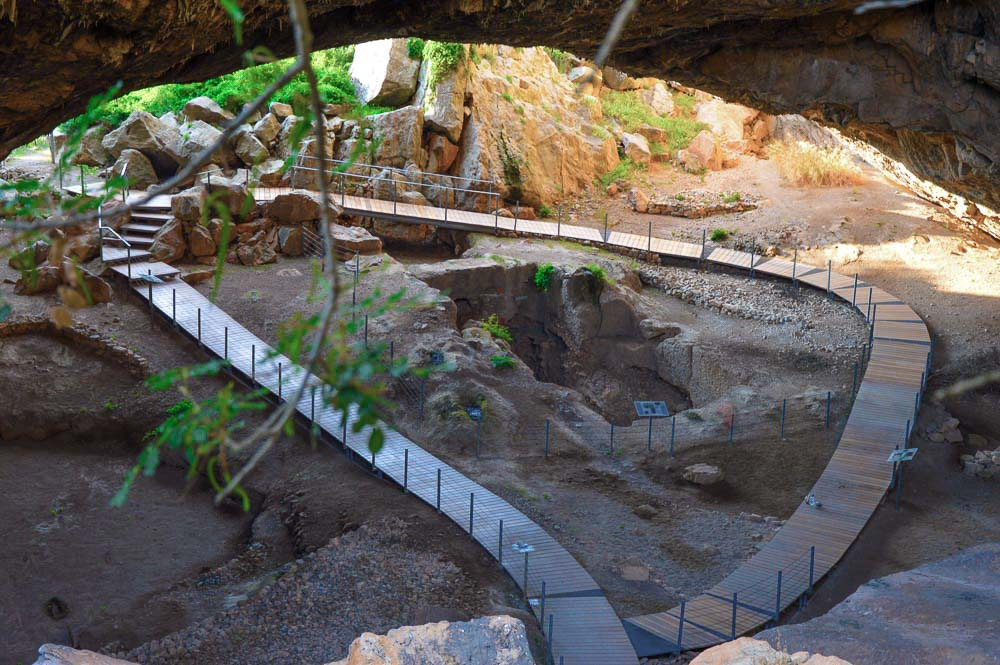 Cave Frahthi - Argolida Greece